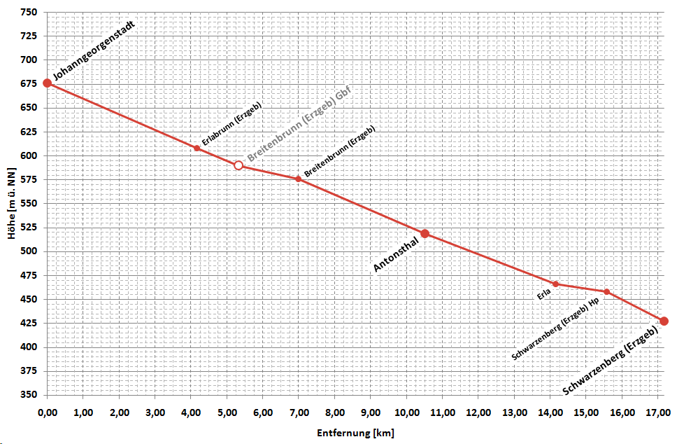 simplified altitude-profile of railway track Johanngeorgenstadt–Schwarzenberg